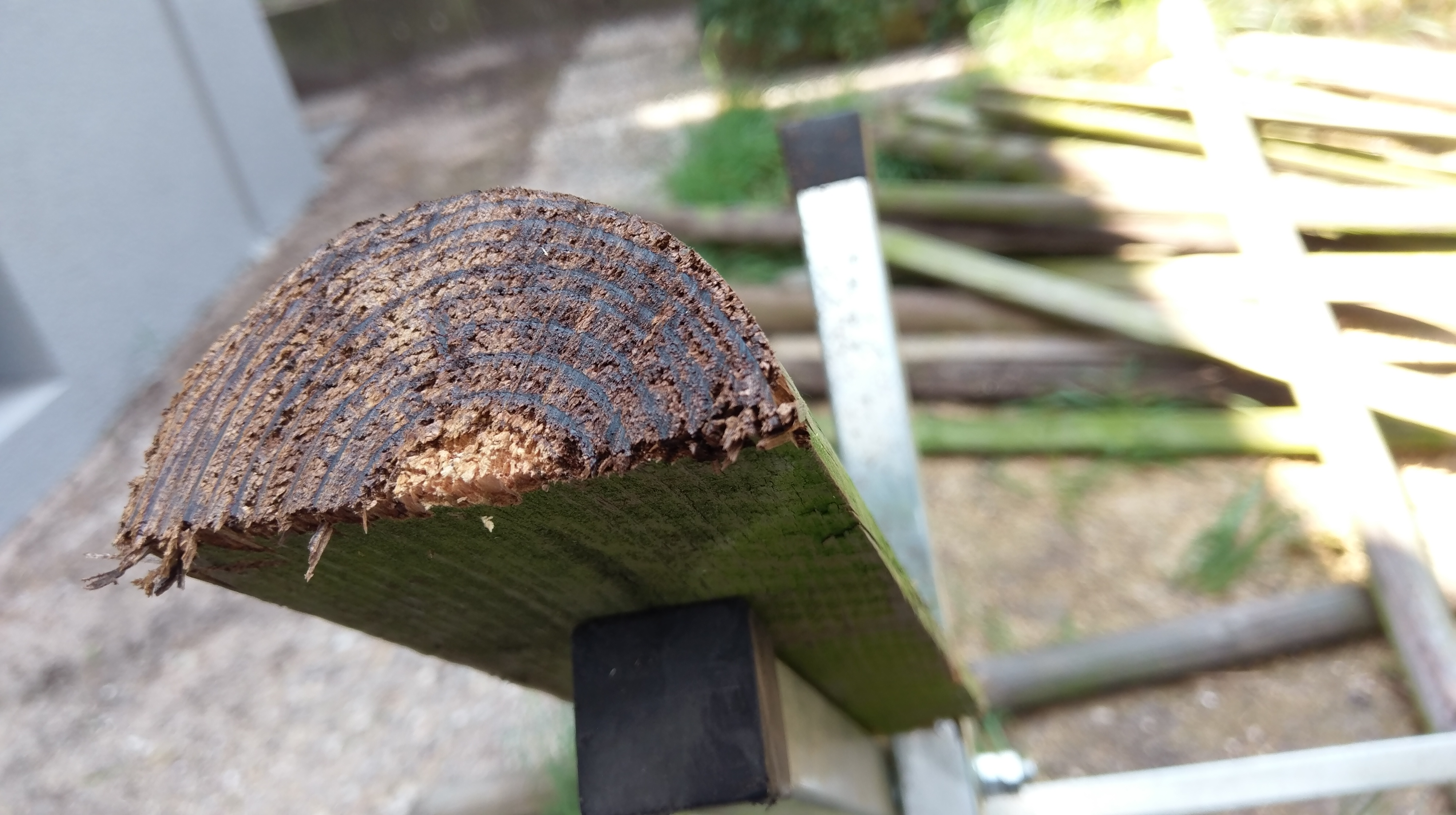 Carbolineum treated wood. A round pole was penetrated almost to the centre and later cut in half.